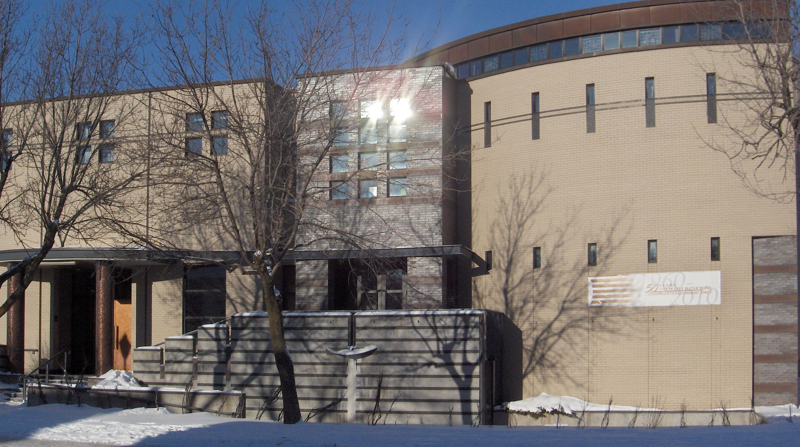 the Reconstructionist Synagogue of Montreal,(congregation Dorshei Emet) Montreal, Canada